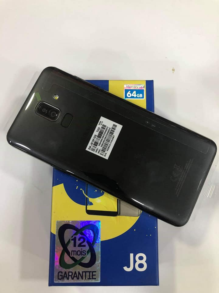 The Samsung Galaxy J8 is an Android smartphone developed by the Korean manufacturer Samsung Electronics.